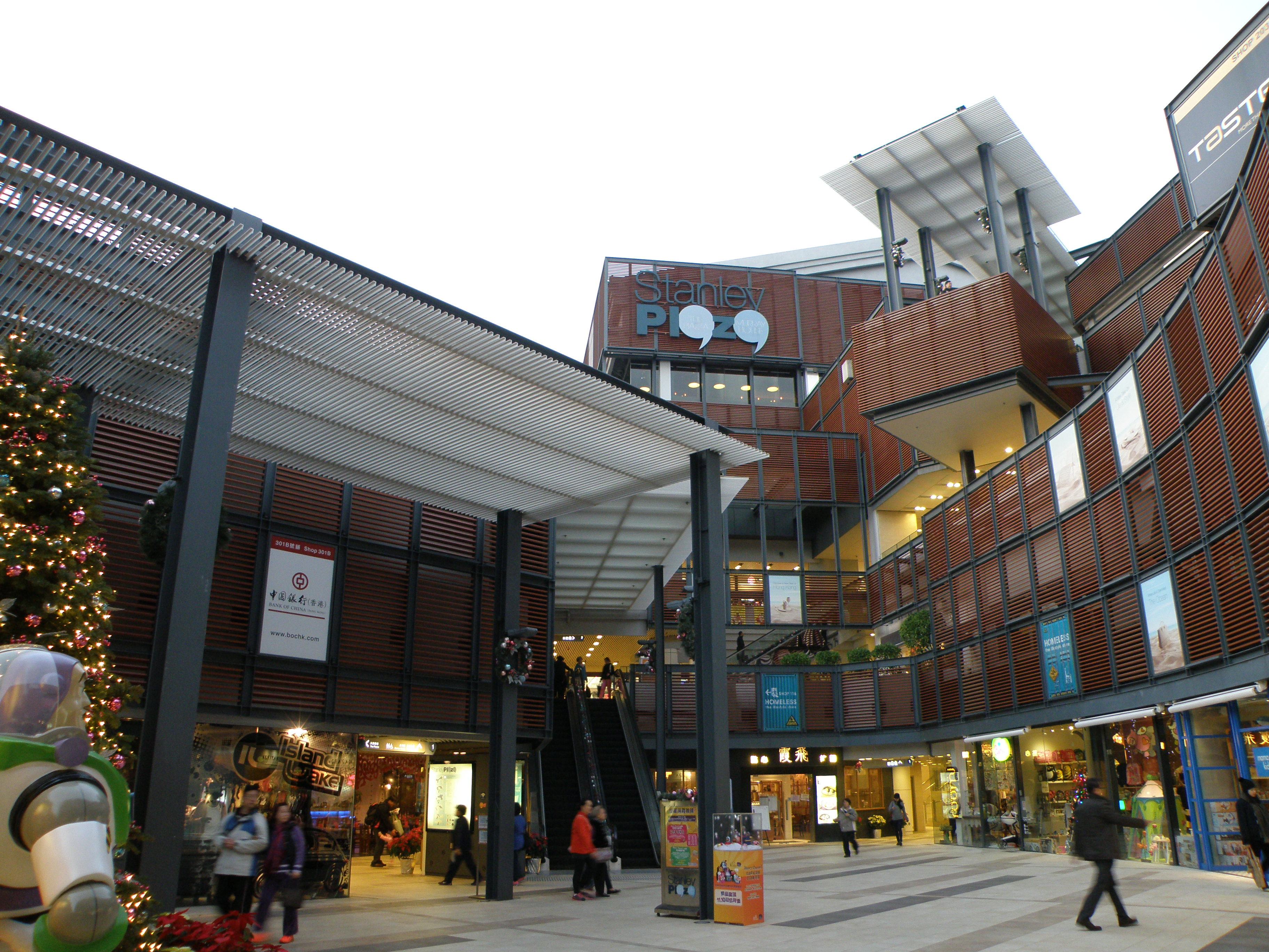 Stanley Plaza in Stanley, Hong Kong.